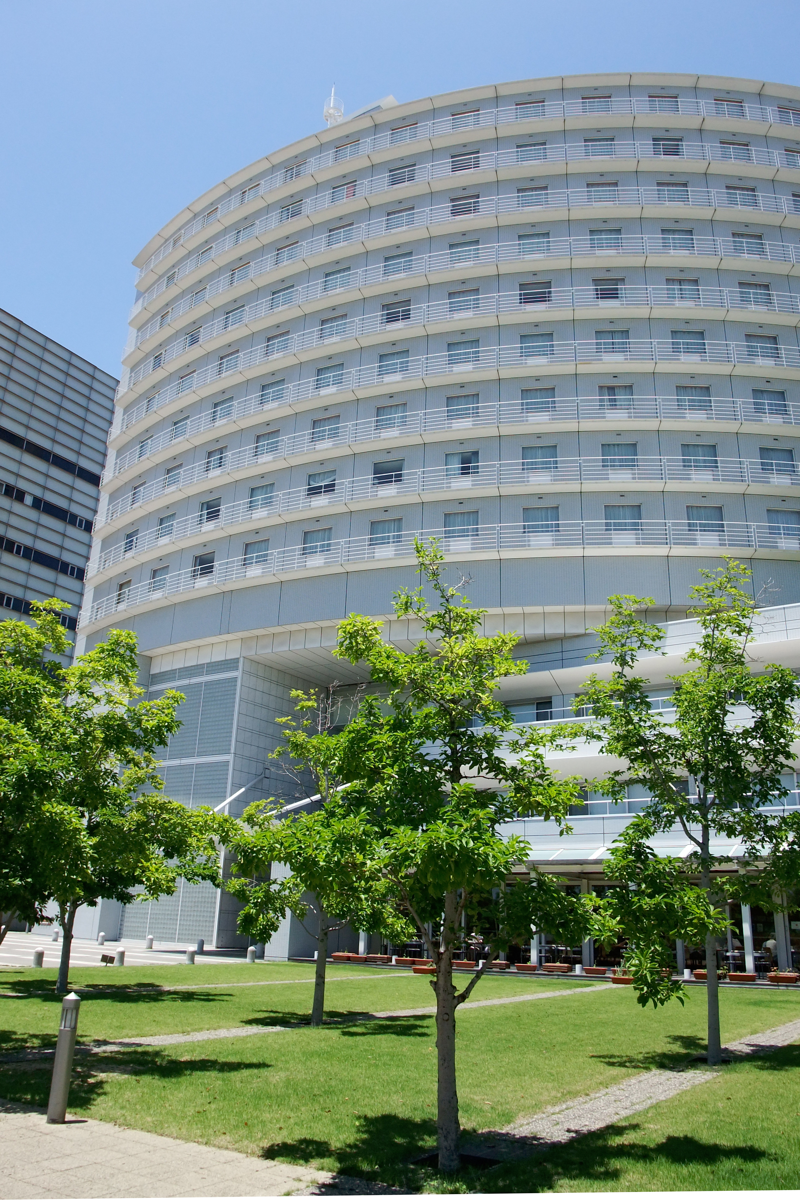 JICA Hyogo in HAT Kobe, Kobe, Hyogo prefecture, Japan